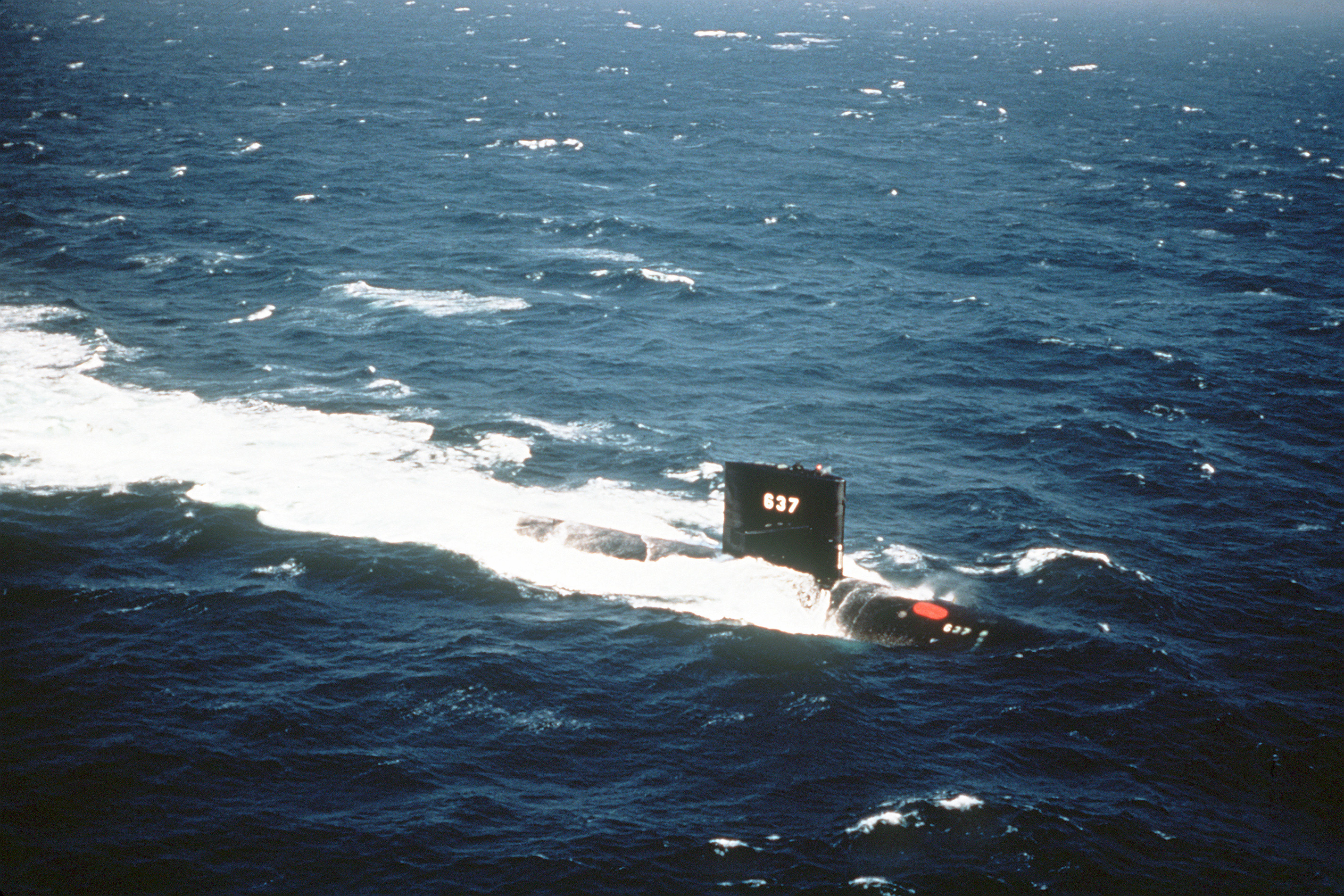 A starboard bow view of the nuclear-powered attack submarine USS STURGEON (SSN-637) underway off Long Island, N.Y.